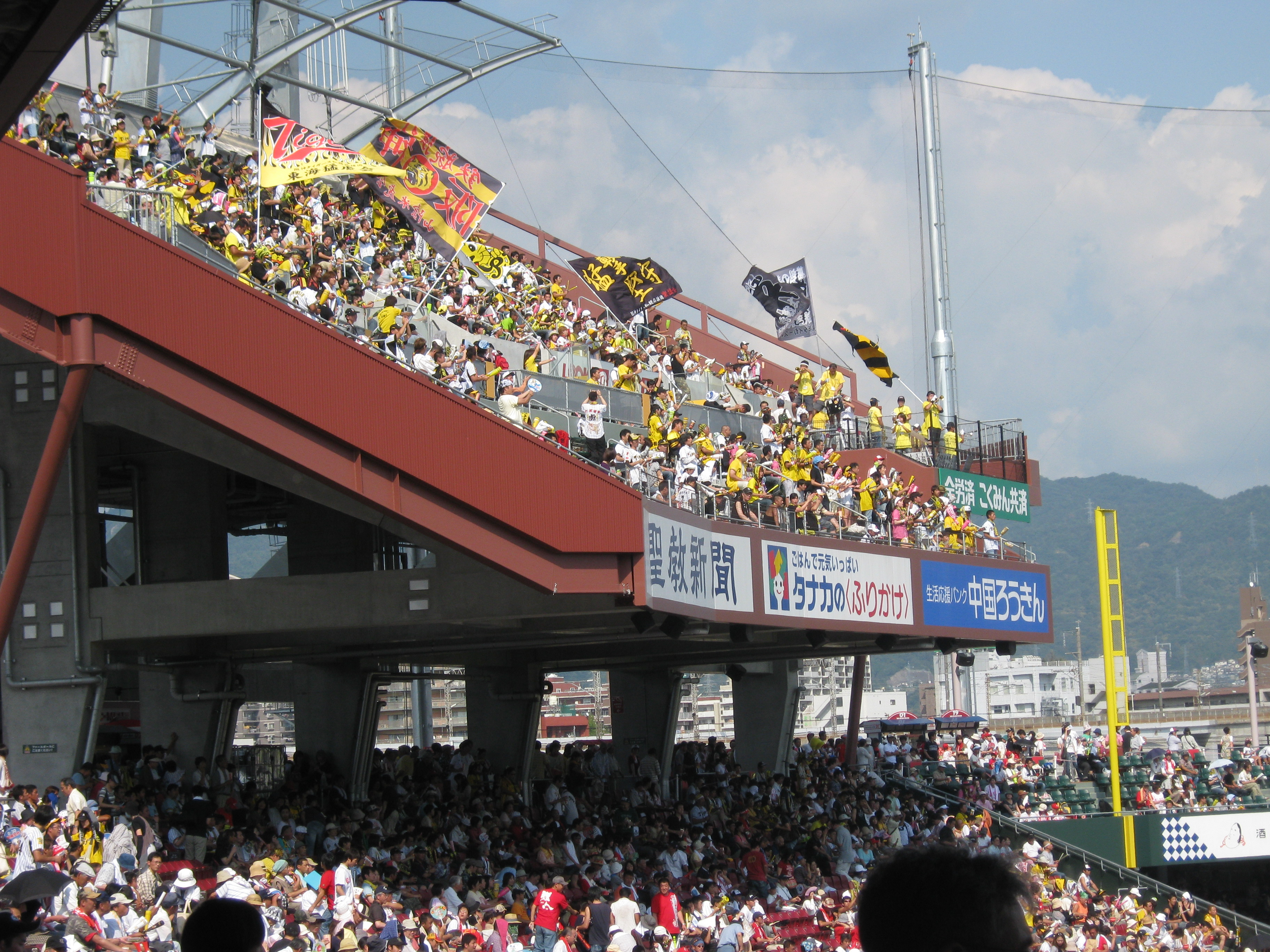 Uploaded through Desktop Flickr Organizer. タナカのふりかけ (田中食品)